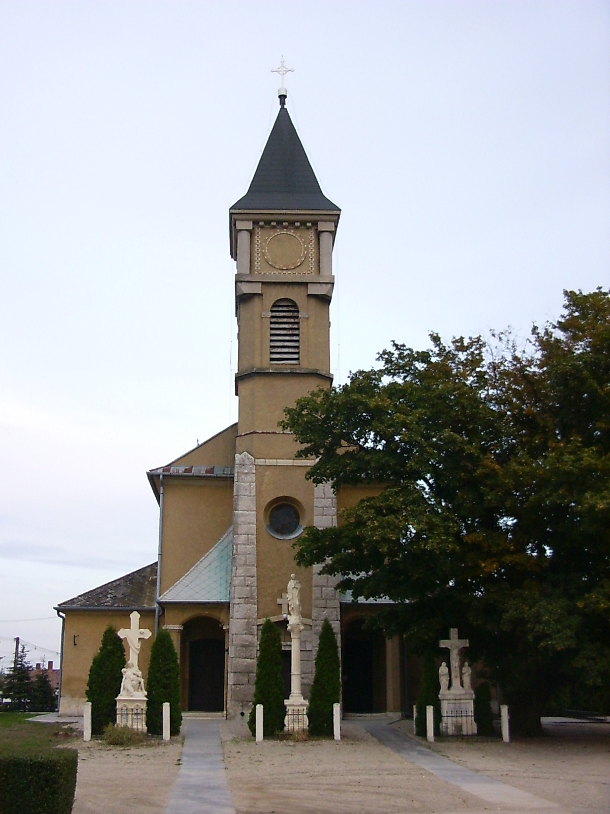 Babót, Michael church